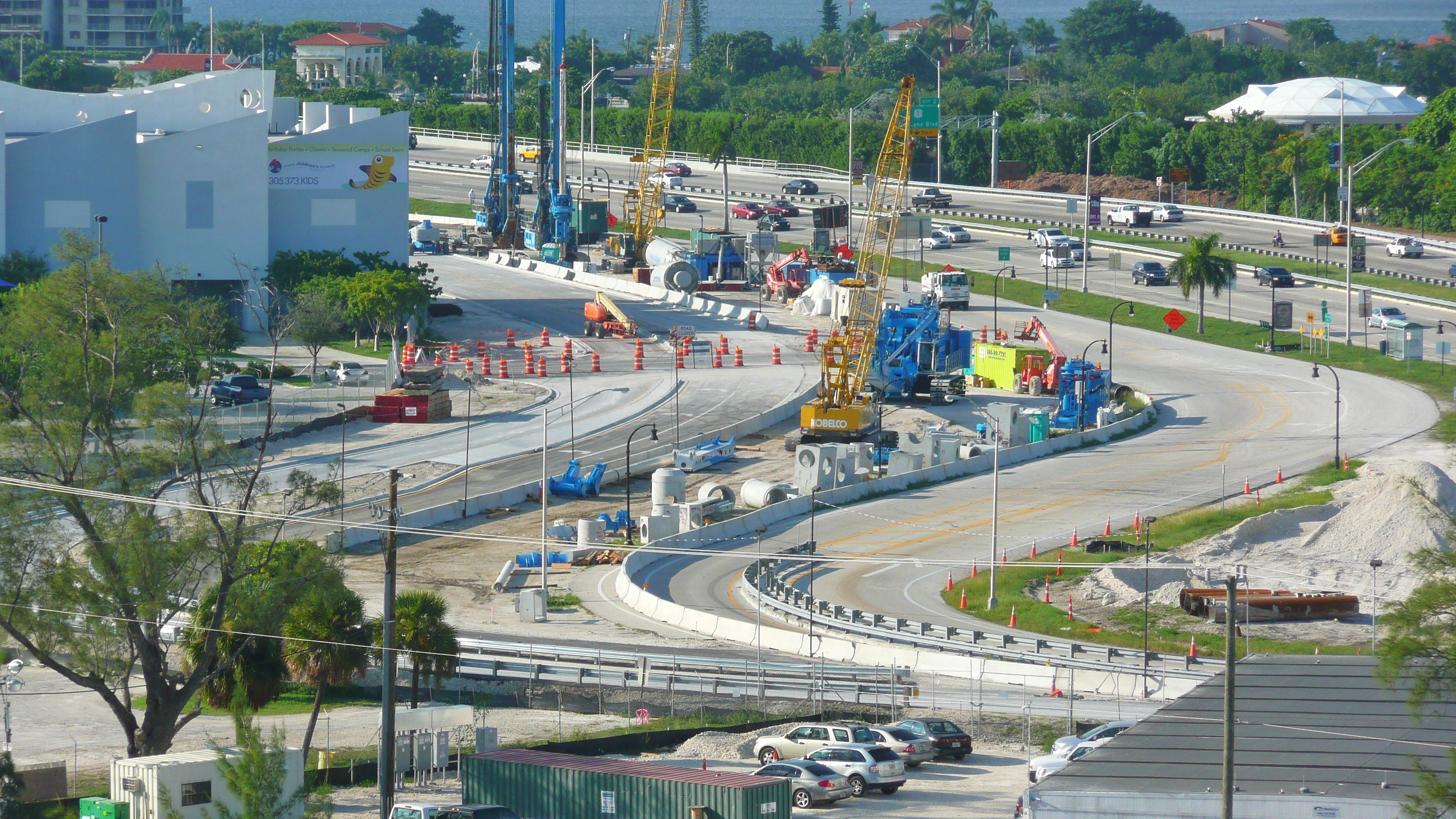 Digital photo taken by Marc Averette. Construction of the Port of Miami Tunnel in Miami, Florida, United States.